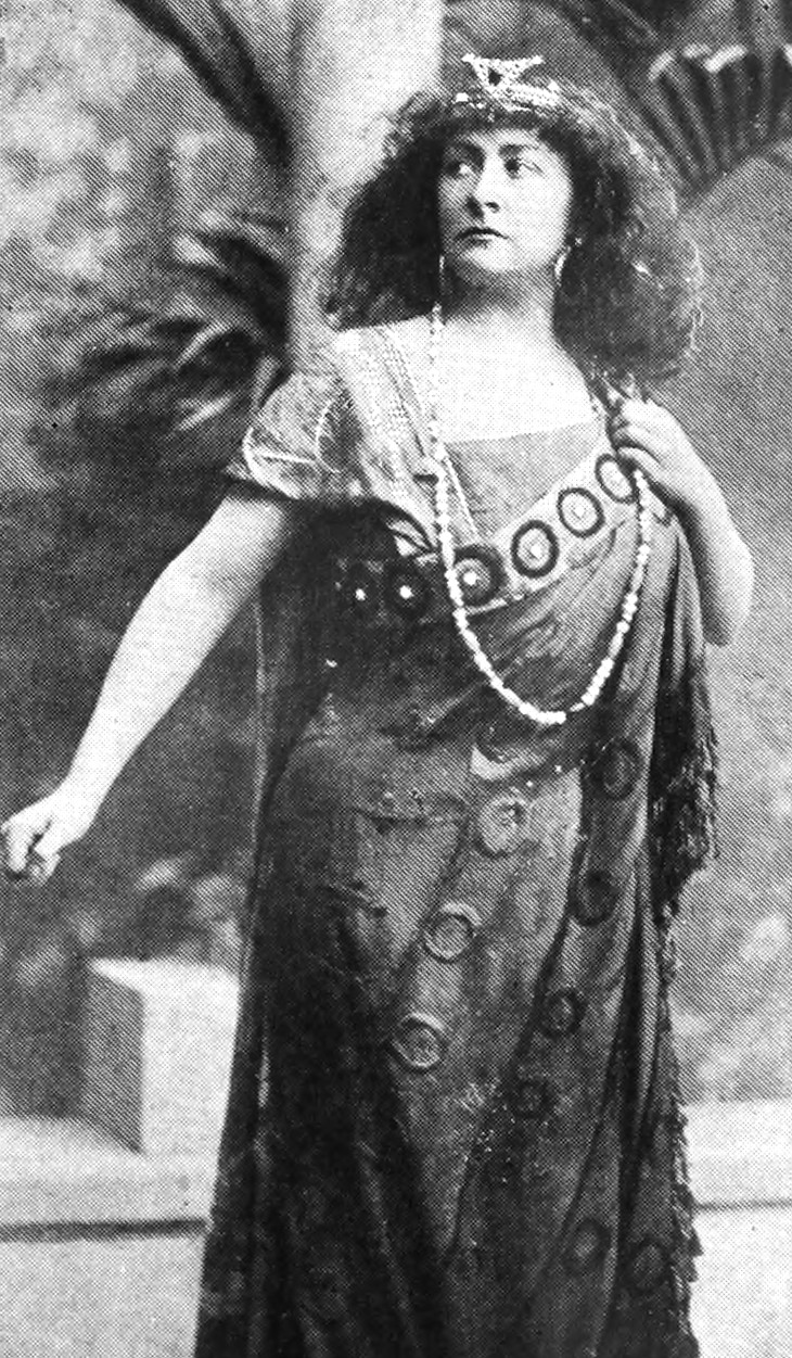 Eames as Aida Title: The Victrola book of the opera : stories of one hundred and twenty operas with seven-hundred illustrations and descriptions of twelve-hundred Victor opera records Year: 1917 (1910s) Authors: Victor Talking Machine Company Rous, Samuel Holland Subjects: Operas Publisher: Camden, N.J. : Victor Talking Machine Co. Text Appearing Before Image: ent forth the impious word! conqueror Of my father—of him who takes arms For me—to give me again A country; a kingdom; and the illustrious name Which here I am forced to conceal!The insane word forget, O gods;Return the daughter To the bosom of her father; Destroy the squadrons of our oppressors!. . . What am I saying? And my love, Can I ever forget This fervid love which oppresses and enslaves,As the suns ray which now blesses me? Shall I call death on Rhadames—On him whom I love so much? Ah! Never on earth was heart torn by more cruel agonies! She gives way to her emotion for a brief moment, then rousing herself, she calls on her gods for aid and goes slowly out as the curtain falls. SCENE II—The Temple of Vulcan—in the centre an altar, illuminated by a mysterious light from above Ramfis, the High Priest, and the priests and priestesses have assembled to bless the expedition. The chant in praise of Ptah is heard from an invisible choir. Rhadames enters and receives the consecrated veil. Text Appearing After Image: eames as aida Ramfis: Mortal, beloved of the gods, to thee Is confided the fate of Egypt. Let the holy sword Tempered by the gods, in thy hand become To the enemy, terror—a thunderbolt-death! 19 Rhadames: God, who art leader and arbiter Of every human war.Protect thou and defend The sacred soil of Egypt!